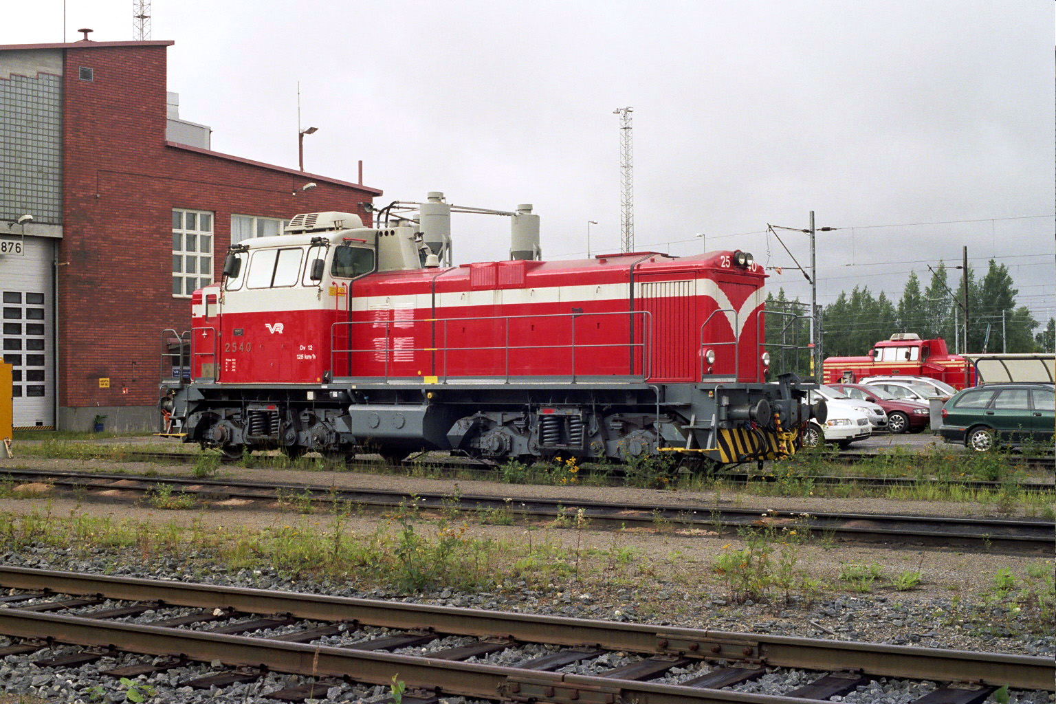 A diesel locomotive, VR class Dv12, before an engine shed in what is probably Perkiö depot or something, in Tampere, Finland. The other locomotive, partially seen on the right, is class Dr14.